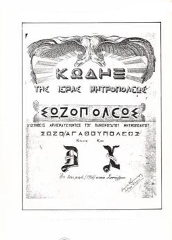 Sozopol Metropoly Kodex